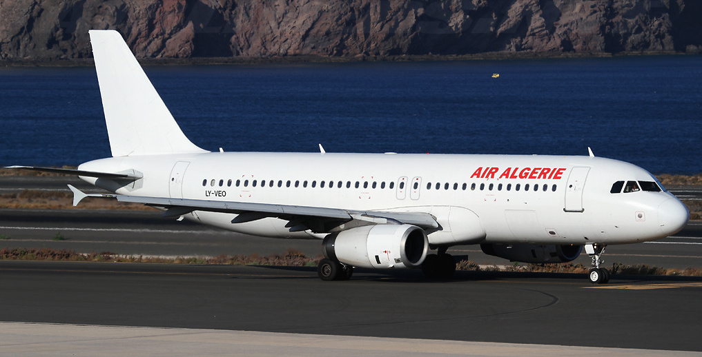 AVION EXPRESS A320 (Air Algerie Ops. 2014)